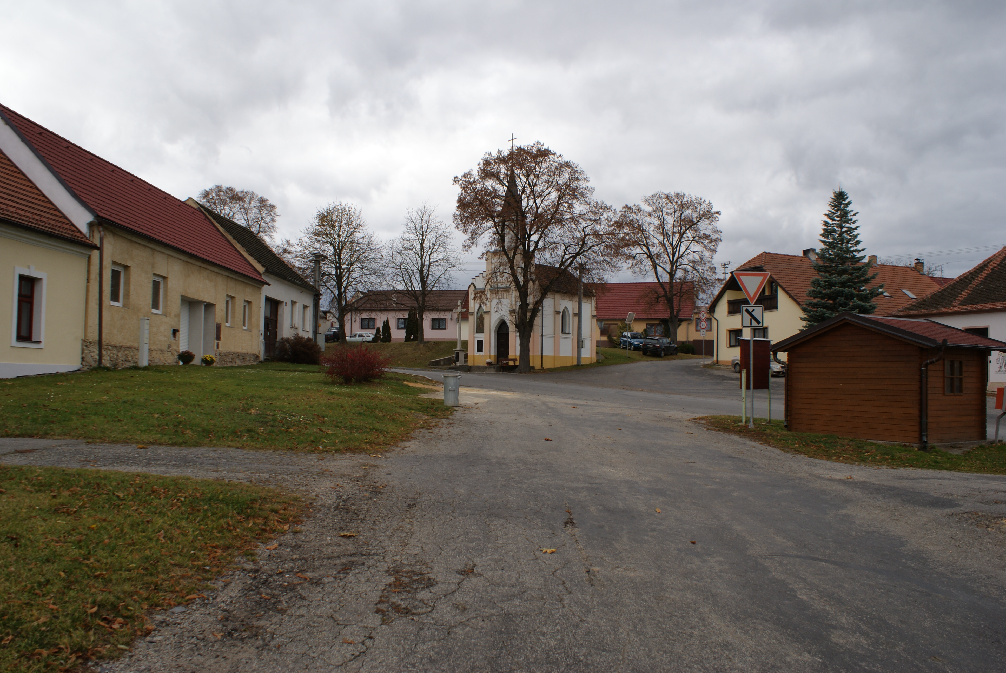 Stožice, a village in Strakonice District, Czech Rep., a view of the village common.